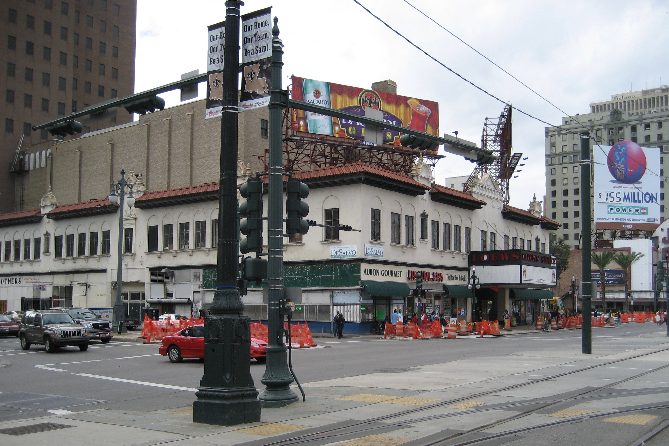 Canal Street, New Orleans, at corner of Ramart Street. Lowe's Theater.